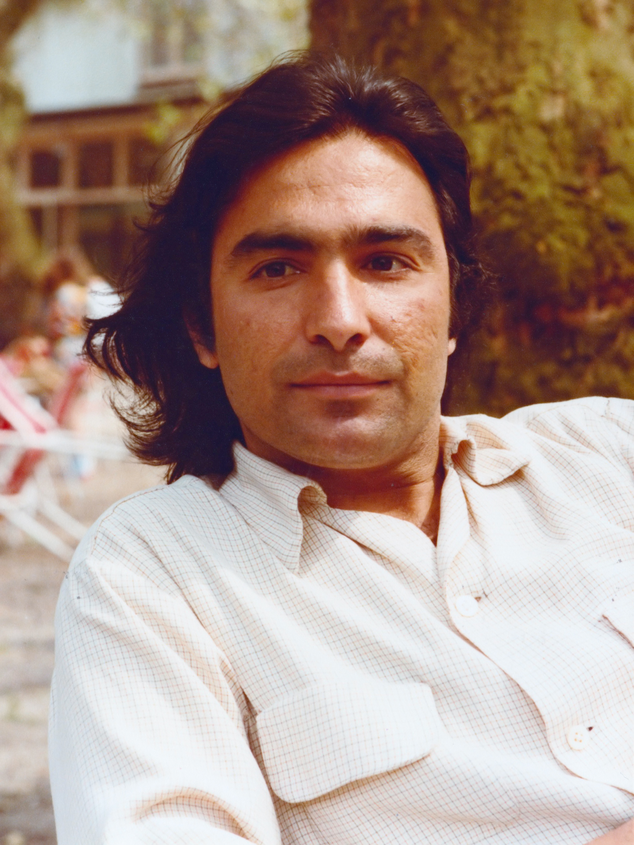 Jonge Halil in Amerika